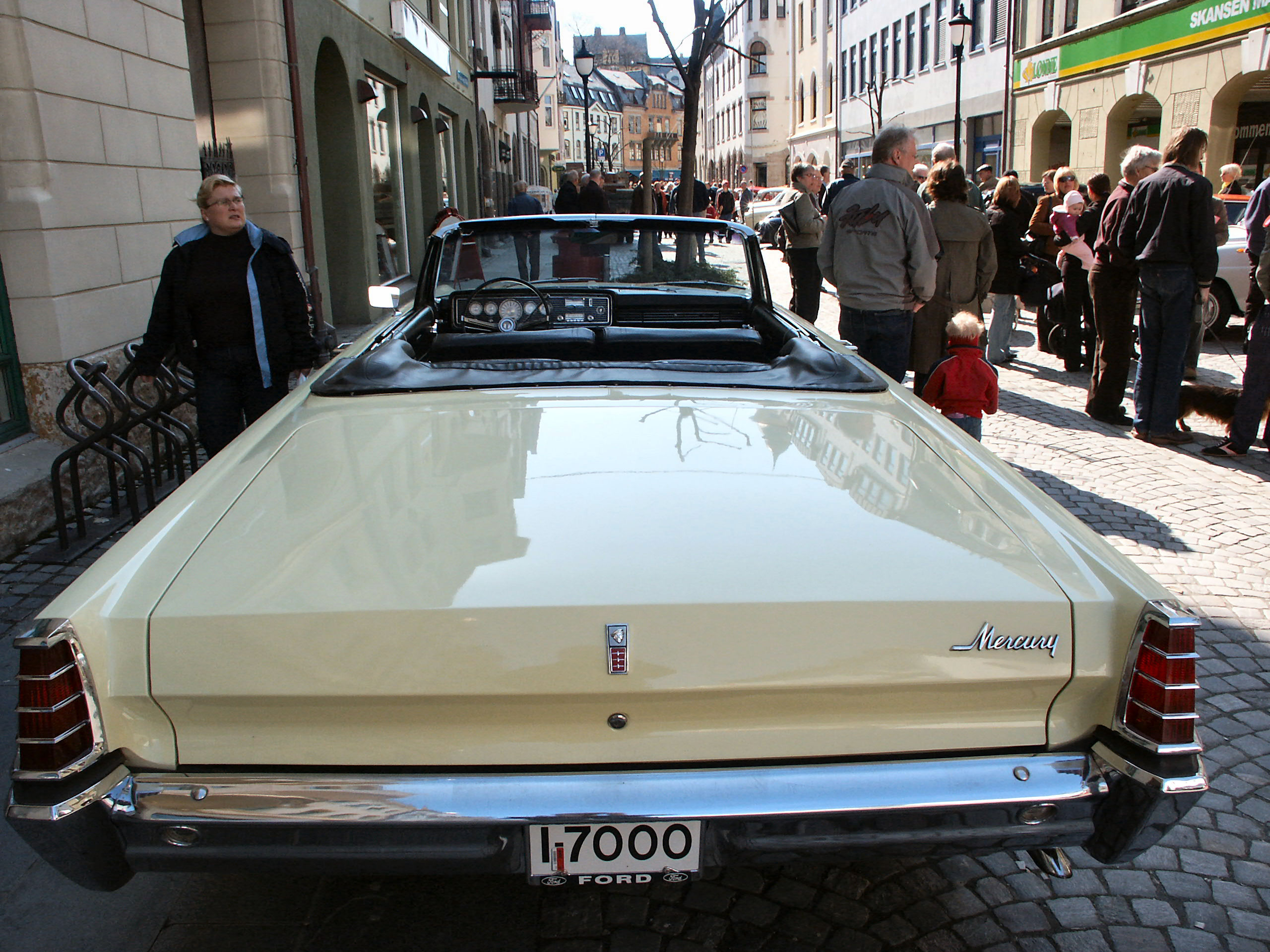 1966 Mercury Monterey 2-Door Convertible in Ålesund, Norway